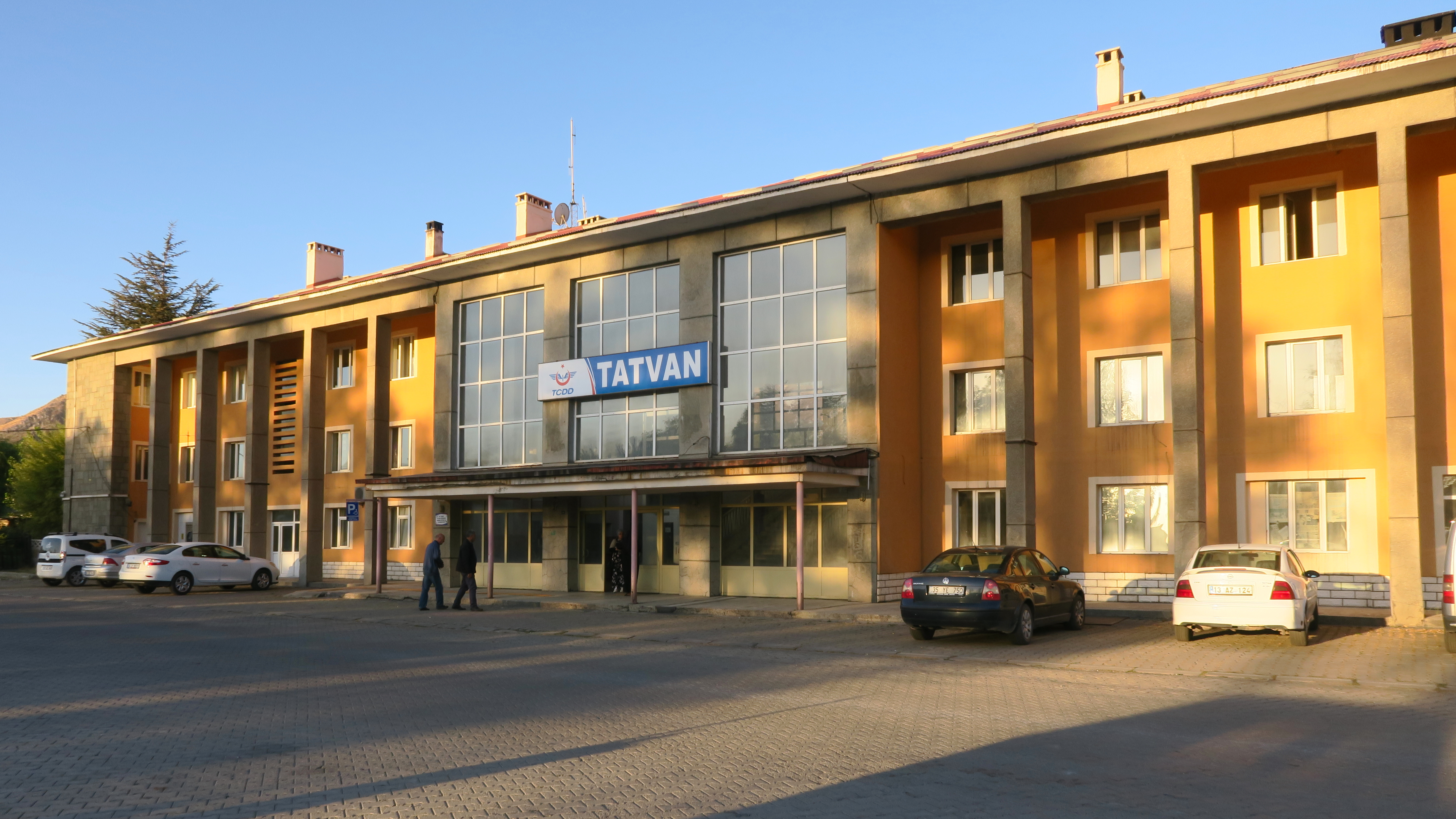 Main building of Tatvan railway station in eastern Turkey.